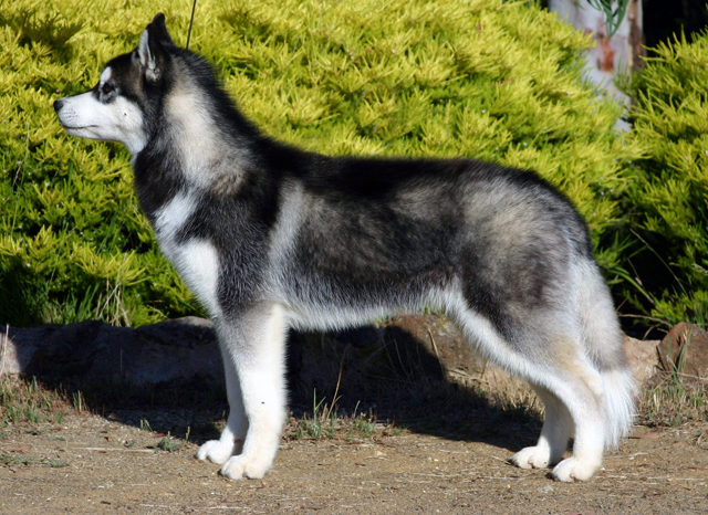 Black and White Siberian Husky